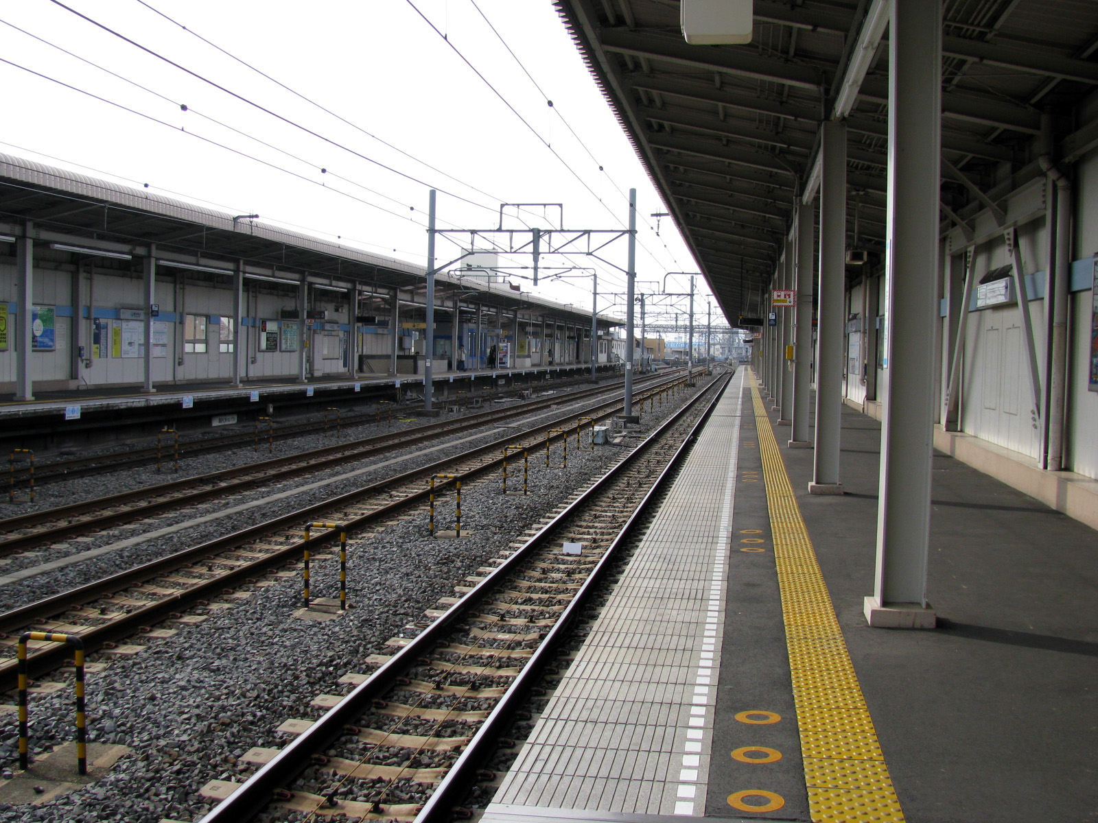 Platform of Baraki-Nakayama Station on Tokyo Metro Tozai-Line